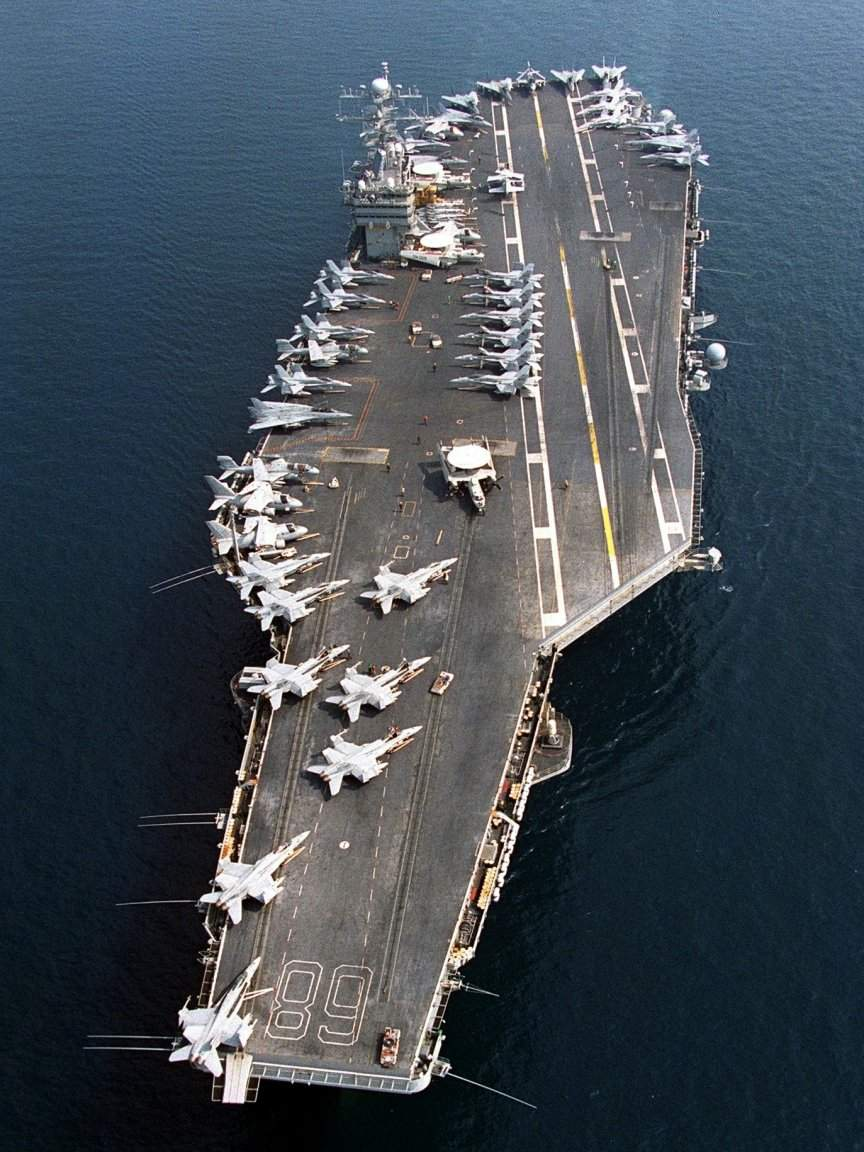 Top view of the USS Nimitz (CVN-68)'s deck in the Persian Gulf. There are about forty aircrafts, including : more than twenty F-18 Hornet strike fighters jets (with folded wings) ; three E-2C Hawkeye AWACS, easily recognizable thanks to their radome ; four anti-submarine S-3B Viking ; two EA-6 Prowler ; several F-14 Tomcat interceptors.